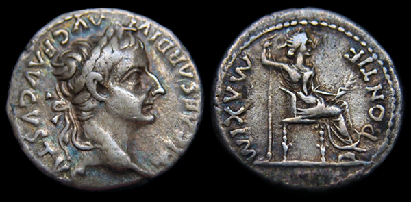 Group 4 Denarius (18 AD - 35 AD) of Tiberius (Roman emperor (Emperor 14 AD - 37 AD), also sometimes referred to as a Tribute Penny. Obverse: TI[berivs] CAESAR DIVI AVG[vsti] F[ilivs] AVGVSTS (Caesar Augustus Tiberius, son of the Divine Augustus) Reverse: PONTIF[ex] MAXIM[us] (The greatest bridge-builder) - Livia seated holding inverted spear and olive branch. Catalogue: Sear (1964) - 467 When Jesus was asked whether or not it was lawful to pay tribute to Caesar, he requested that he be shown a coin. He then asked whose image appeared on the coin. On being told that it was Ceasar's, he replied "Render unto Caesar the things that are Caesar's, and unto God the things that are God's". It has been postulated [1] that a coin of this type was the coin handed to Jesus.